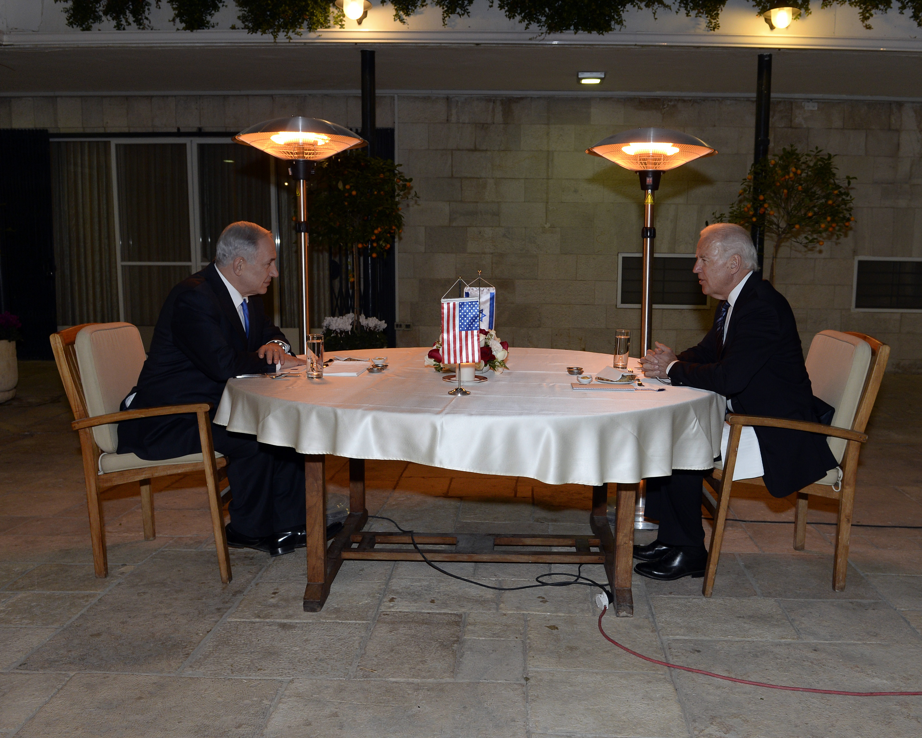 Vice President Joe Biden meets with Benjamin Netanyahu at the Prime Minister's residence in Jerusalem on January 13, 2013. [State Department photo by Matty Stern/ Public Domain]